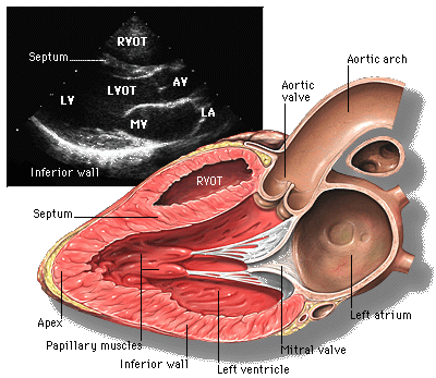 Left parasternal long axis view of heart